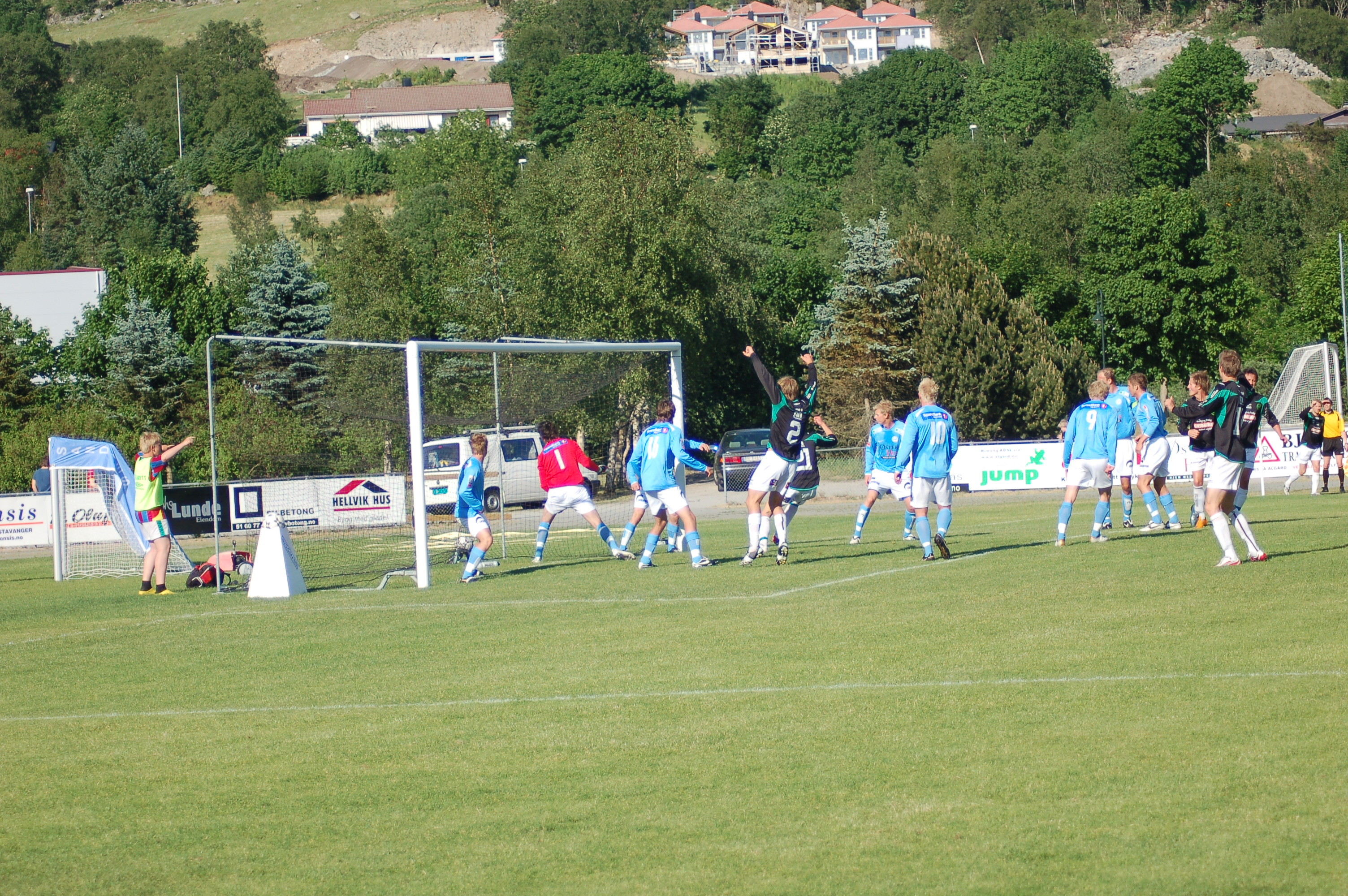 Sandnes Ulfs goalkeeper has to watch as Ålgård FK scores the first goal in a the 2nd round of NM 2008.